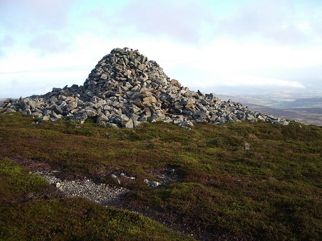 Carn Chainichin. King Kenneth's Cairn. This was built about 1003 in memory of the son of King Duff, who was killed in the battle of Monzievaird that year and buried on Iona. It stands in a prominent position on the edge of the steep escarpment of Corrie Barvick.